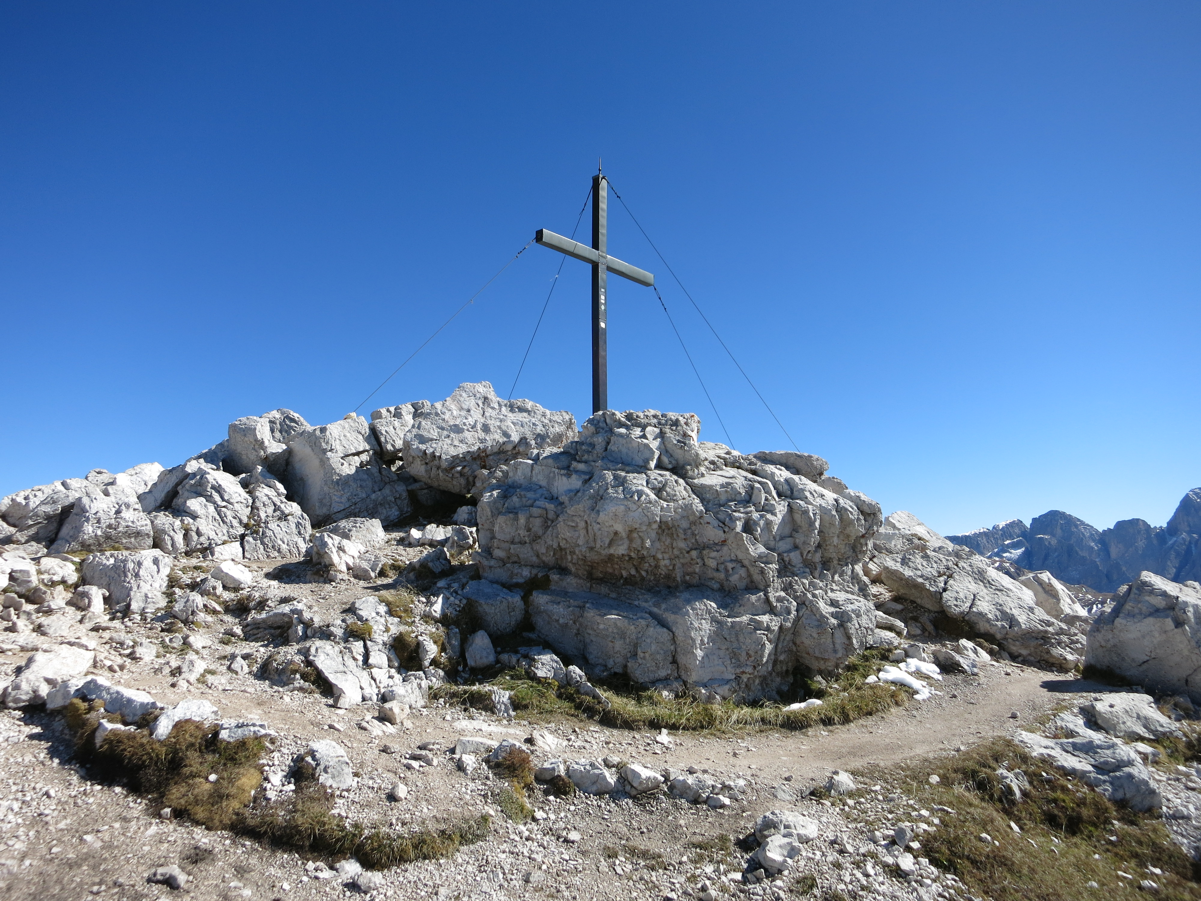 On top of mountain Petz (Schlern), South Tyrol (Italy)